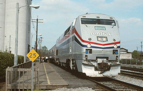 The southbound Gulf Breeze at Montgomery station in March 1995, less than a week before its discontinuance